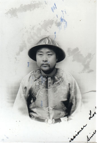 Zhuang Lefeng (1873-1949)